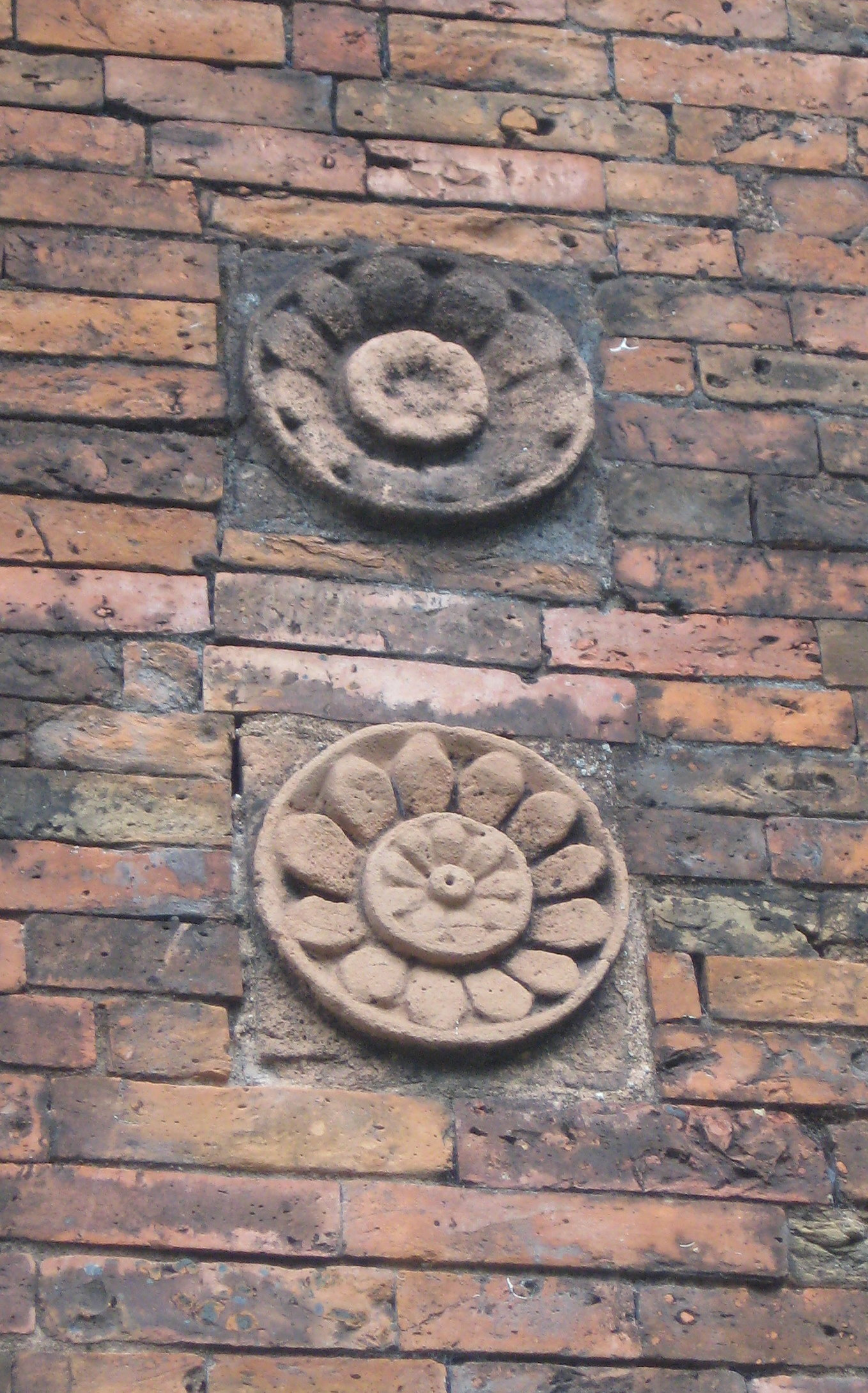 This historic city is located within Bagerhat District in south-west Bangladesh. It was founded by Turkish general Ulugh Khan Jahan in the early 15th century. It is an enormous Moghol architectural site covering a very large area (160 x 108) square feet. The mosque is unique in that, it has sixty pillars, which support eighty one (81) exquisitely curved domes that have worn away with the passage of time. The structure of the building also represents the 15th century Turki architectural view. It is anticipated that, before 1459 a greatest devotee of Islam named Khan Jahan Ali established this mosque. He was also the founder of Bagerhat district.